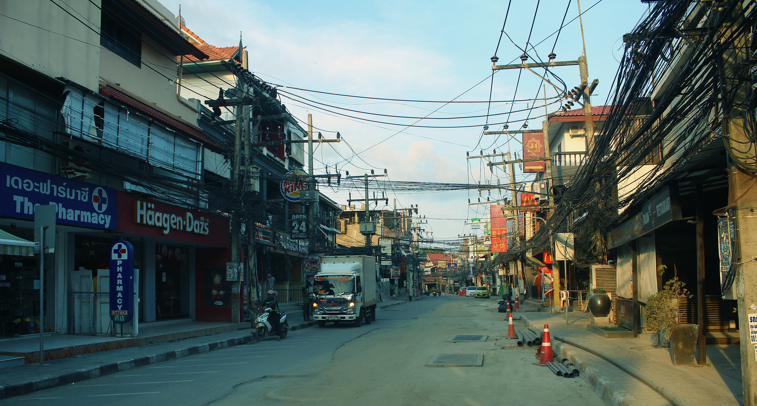 Abandoned tourist town during the coronavirus pandemi lock-down, April 2020. Looking north on the main road in Chaweng Beach, Koh Samui.